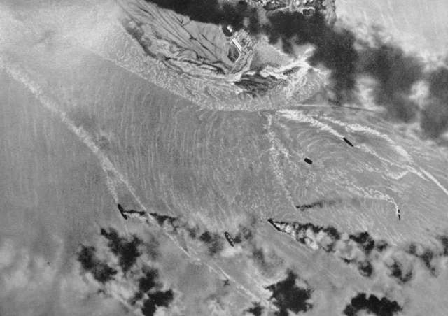 An aerial view of vessels burning in Darwin Harbour taken by the Japanese Task Force during the first raid.